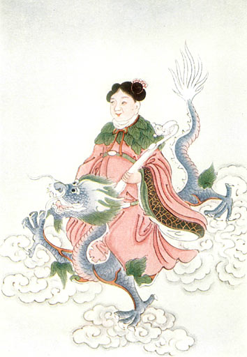 Spirit of the well.